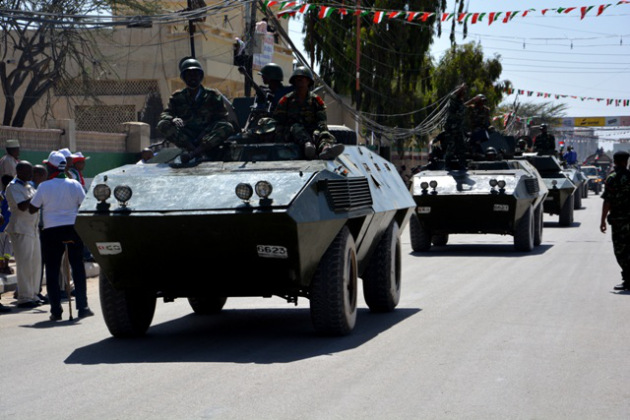 Fiat armored cars of the Somaliland security forces on parade, 18 May 2014.